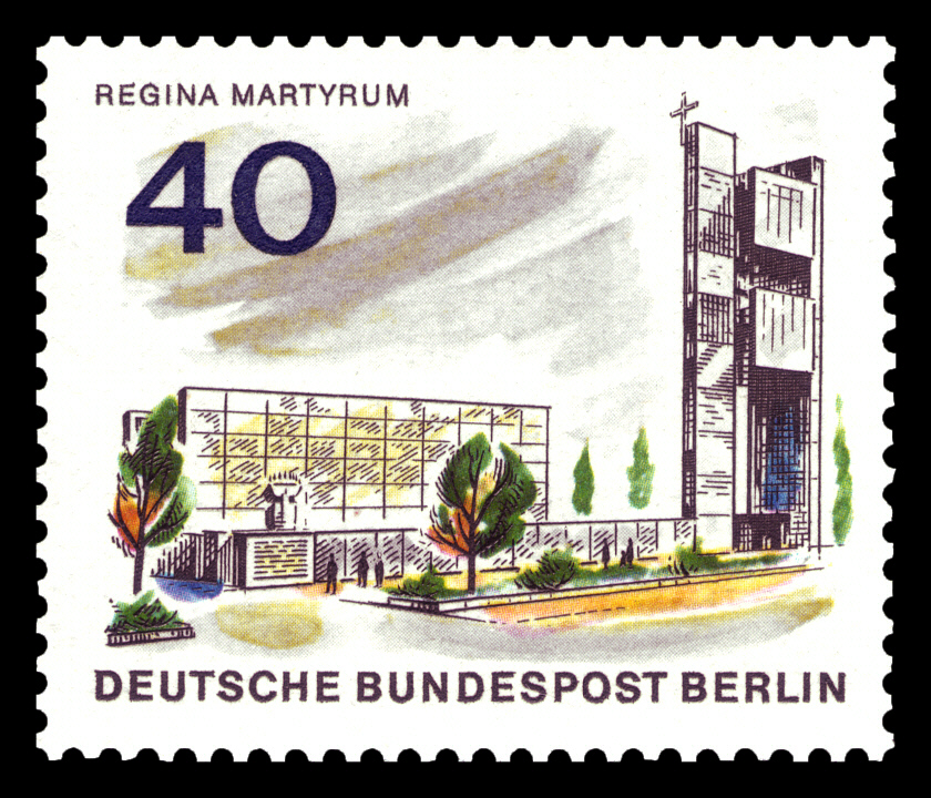 series "The new Berlin"